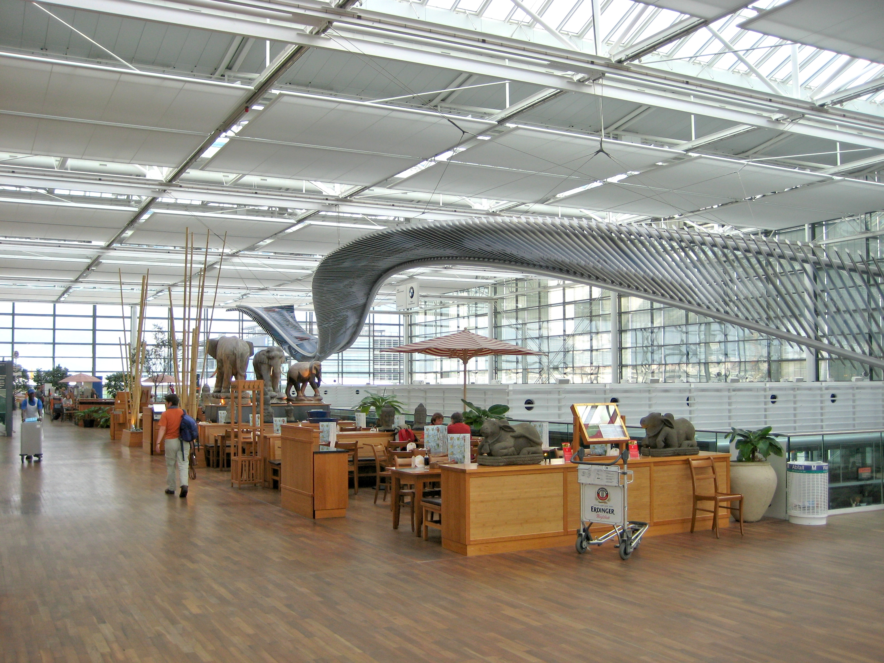 Munich International Airport, Terminal 2, Level 5, bars and restaurants